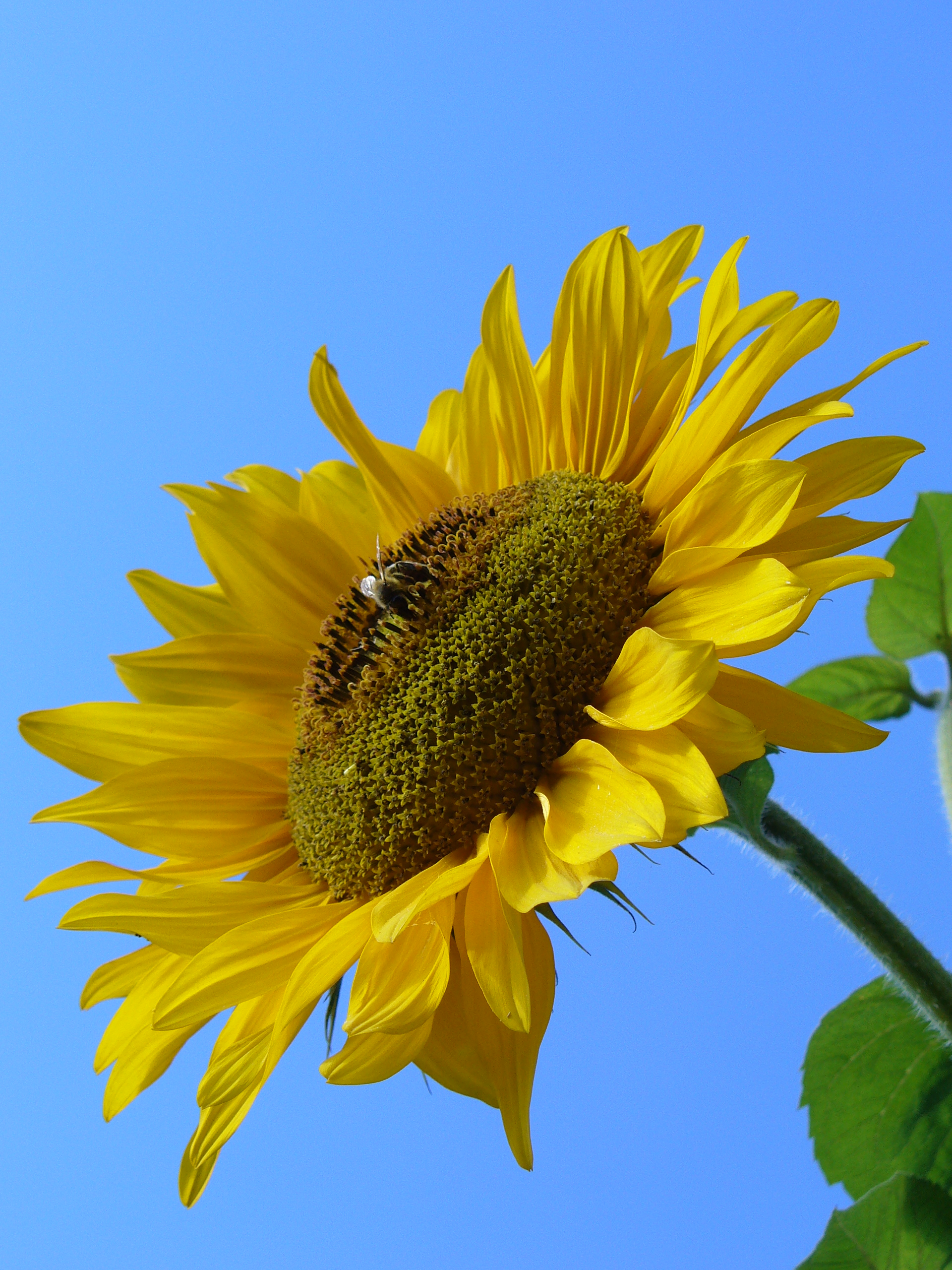 Sunflower (Helianthus L).